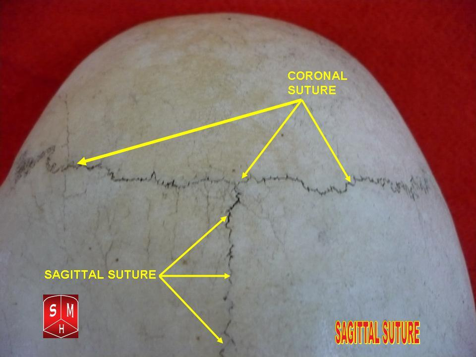 Anatomical piece